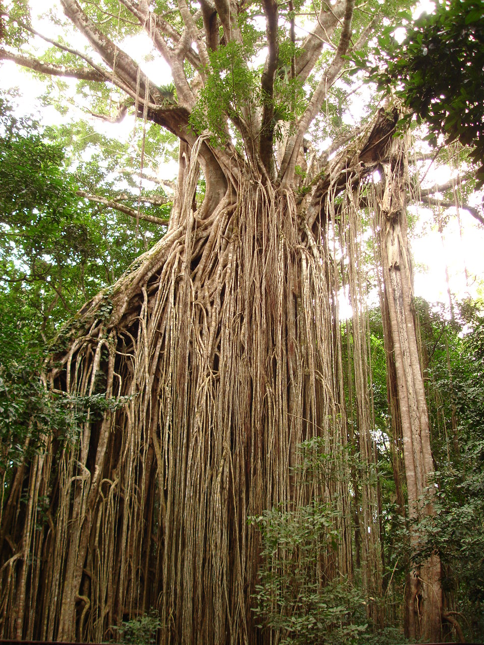 Description: "Curtain Fig Tree" in the Table Lands of Queensland, Australia Source: own work Date: 2005-07-07 Author: Martin Gloss